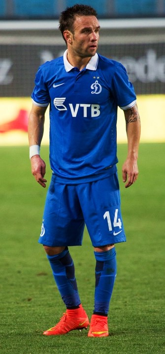 Mathieu Valbuena